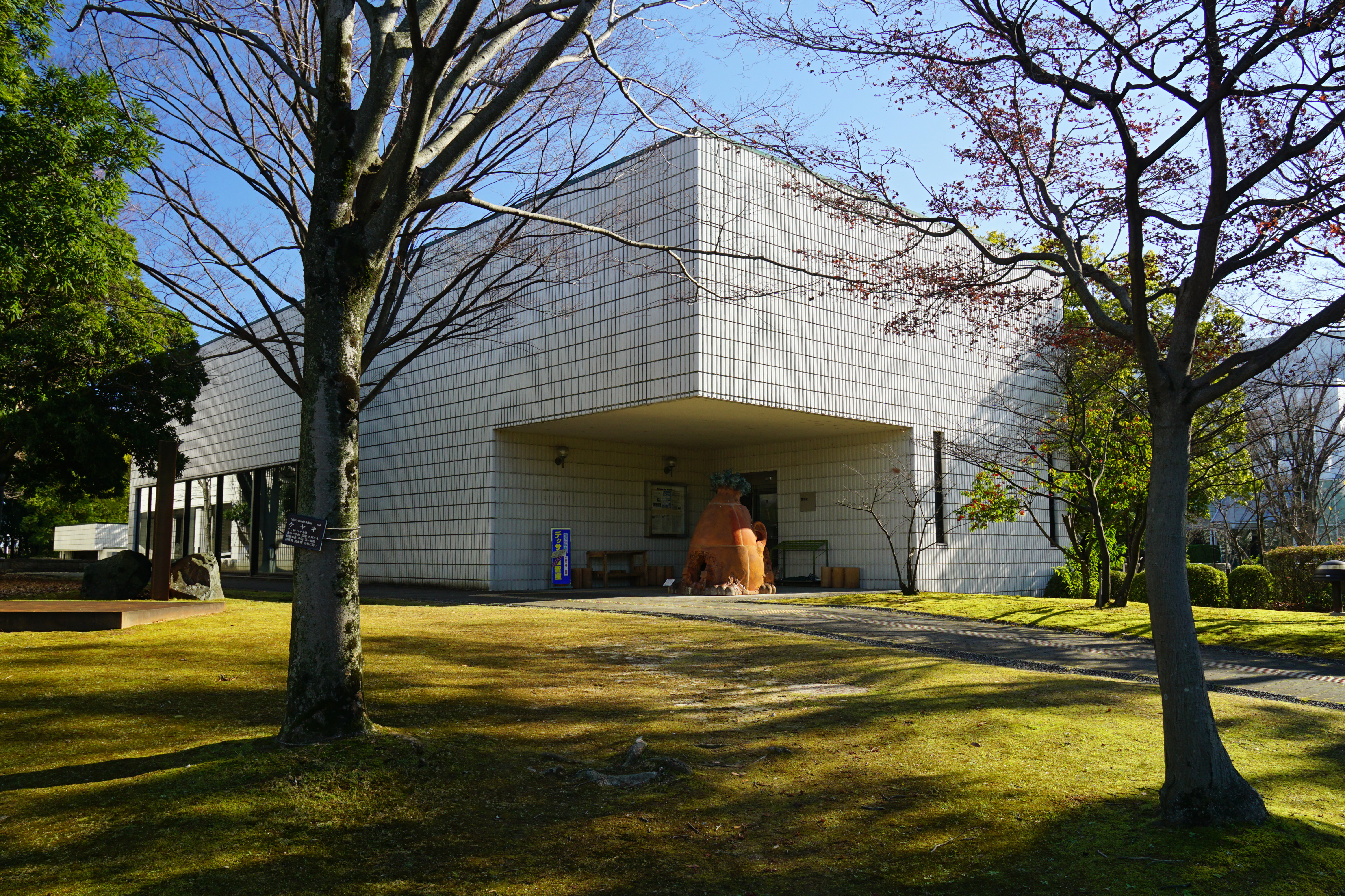 Museum of Fine Arts,GIFU in Gifu, Gifu prefecture, Japan